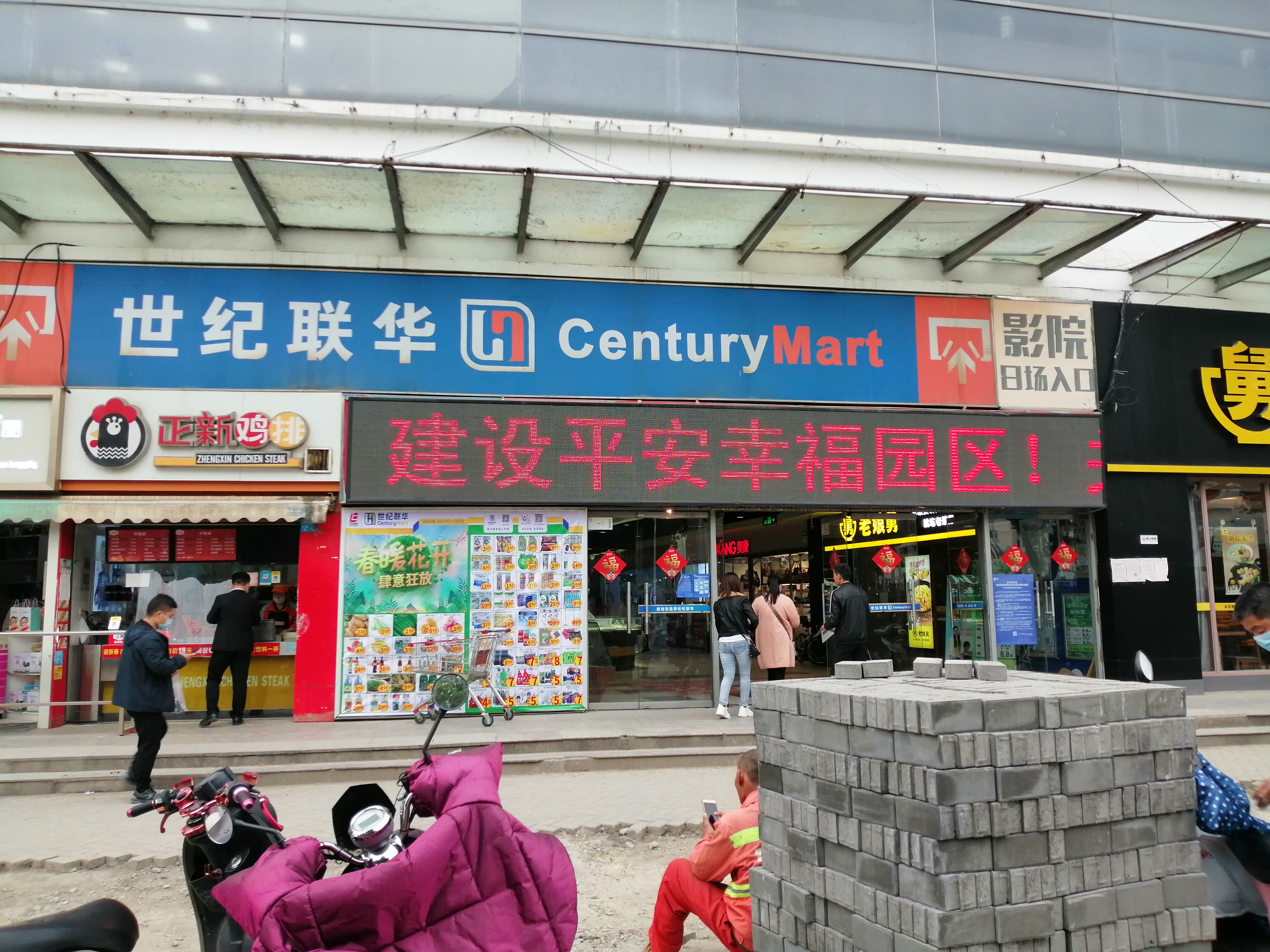 A part of Lianhua Supermarket, which is larger than Lianhua. It also is the headquarters of Jiangsu branch of Lianhua